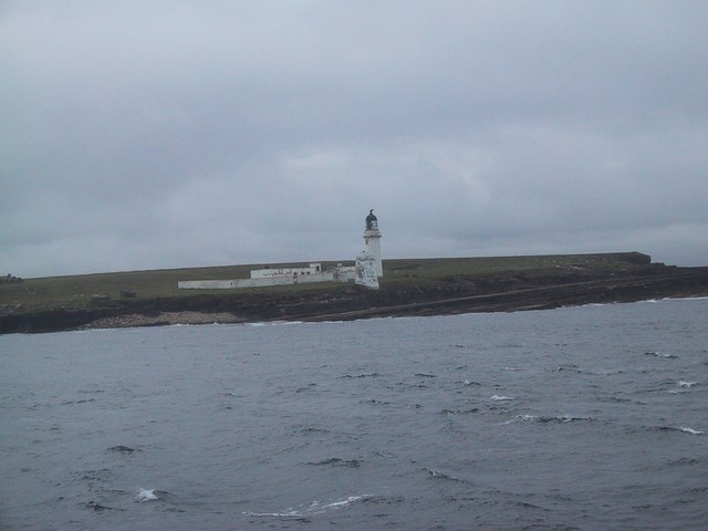 Lighthouse on the Island of Stroma